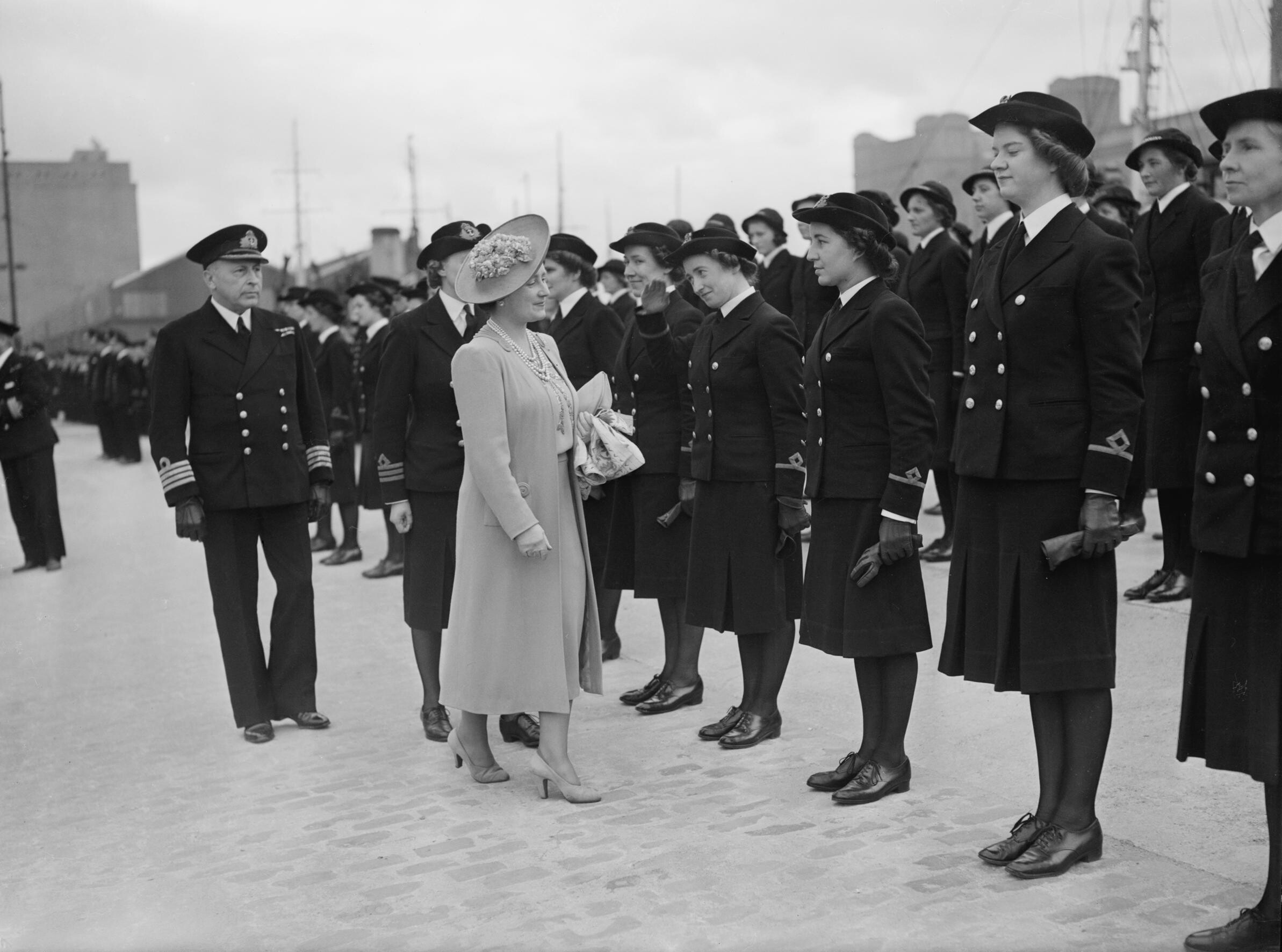 HM Queen Elizabeth inspecting a detachment of Wrens on the quayside at Belfast, 1942. HM Queen Elizabeth inspecting a detachment of Wrens on the quay side at Belfast.